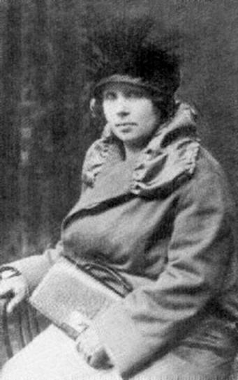 Stanisława Leszczyńska (born May 8, 1896 in Łódź, died March 11, 1974), a midwife in Auschwitz concentration camp responsible for delivery of over 3,000 children; an official candidate for canonization (sainthood) by the Catholic Church.